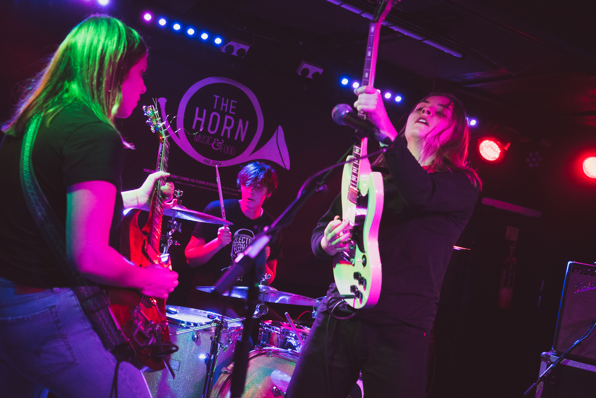 Baby In Vain at the Horn